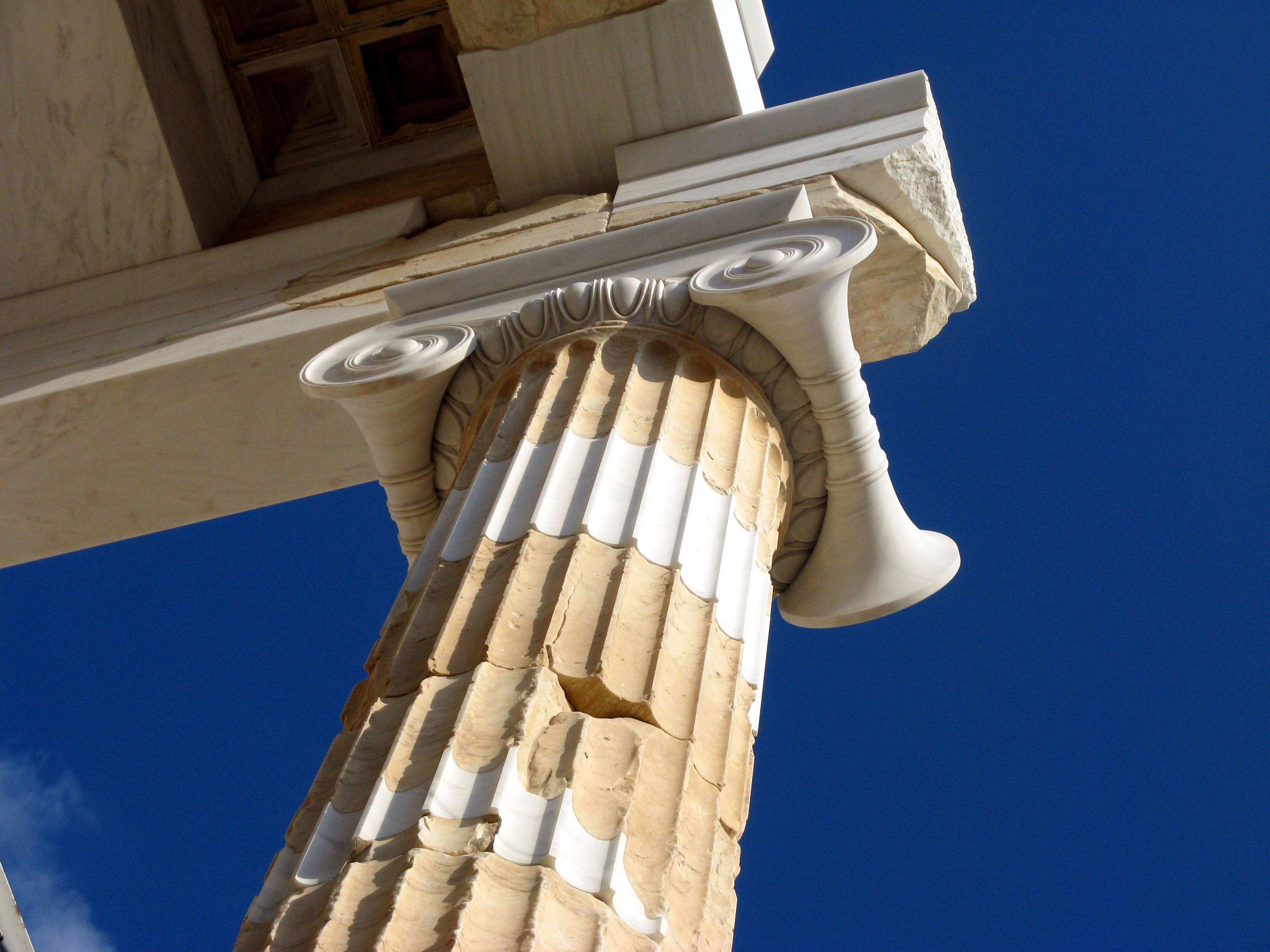 Restored Ionic column at the entrance to the Acropolis of Athens